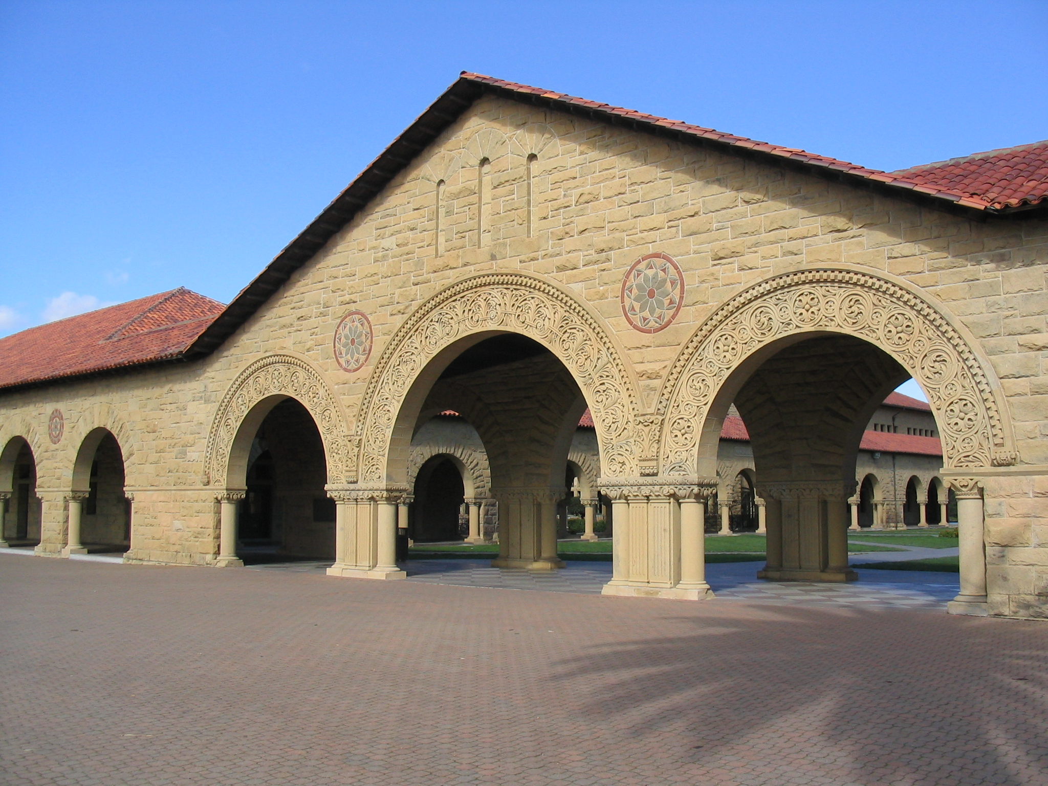 Stanford University, Stanford (CA), place and park in front of the Memorial Church